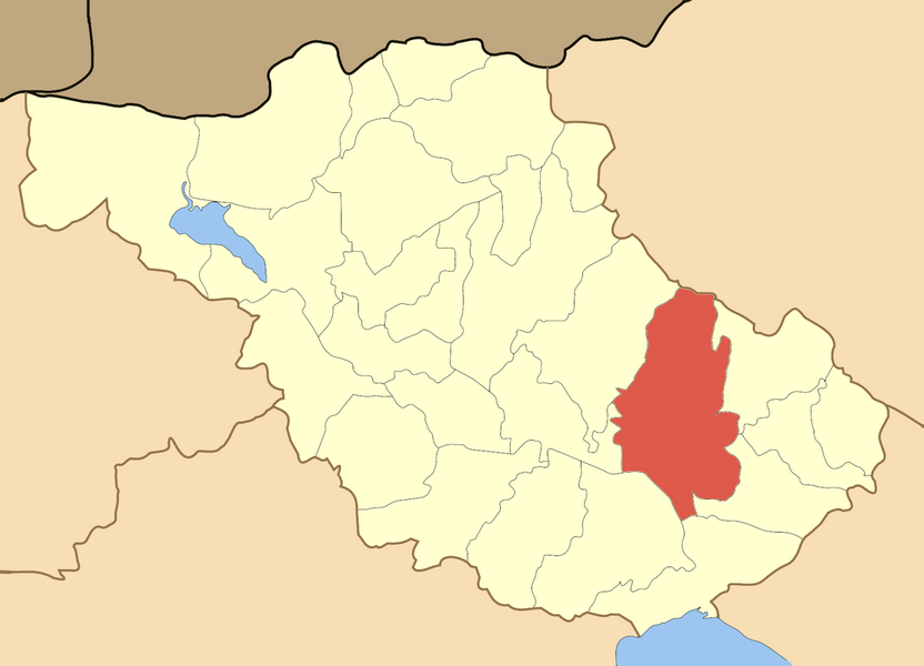 Locator map of Neas Zichnis municipality in Serres perfecture in Greece.